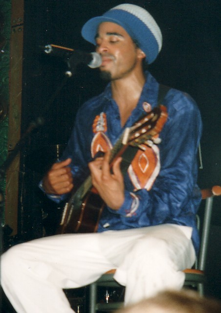 German Reggae singer Patrice Bart-Williams in a concert in Montpelier (France)